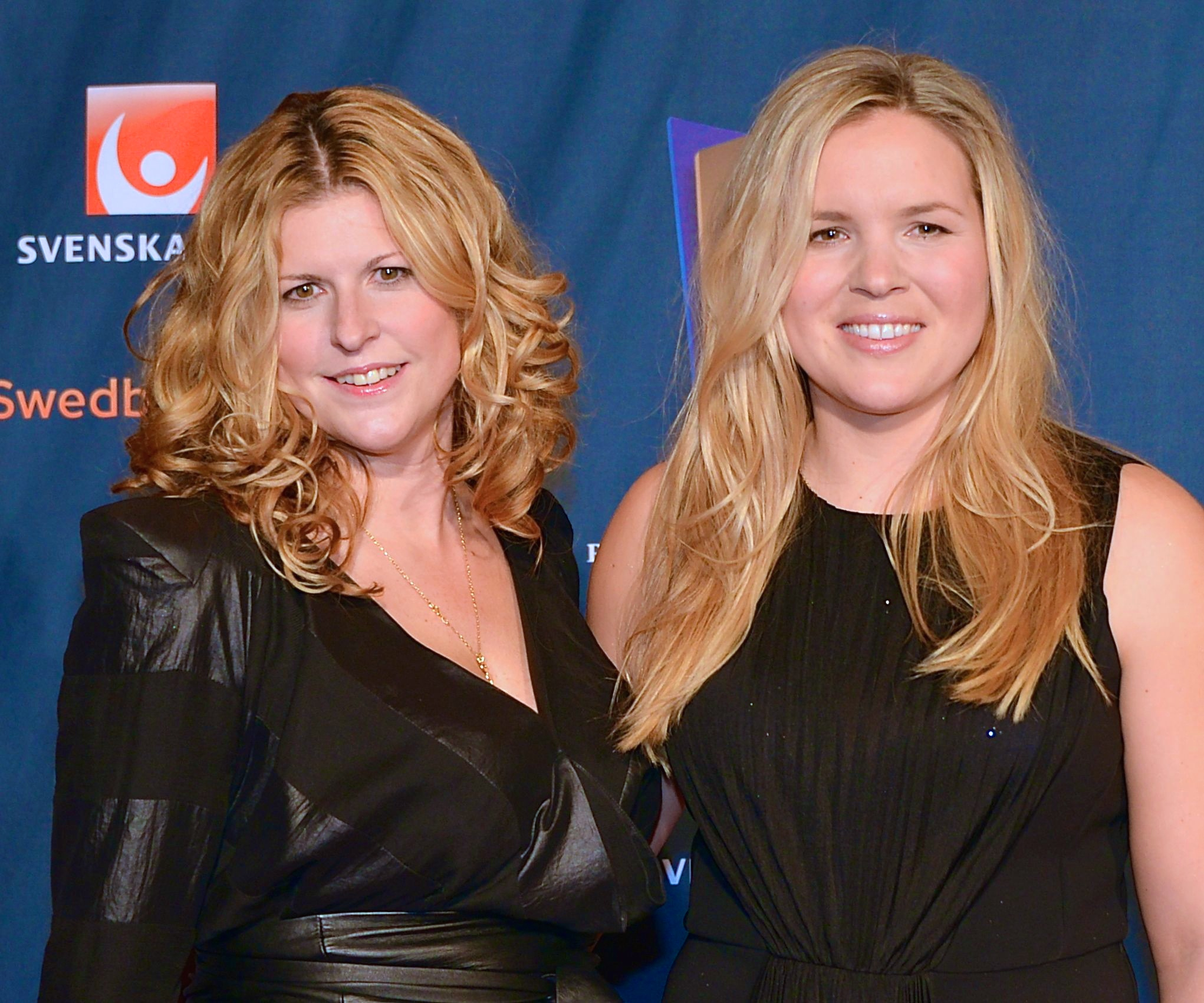 Filippa Rådin och Anja Pärson on Idrottsgalan at the Globe Arena in Stockholm on January 14th 2013.